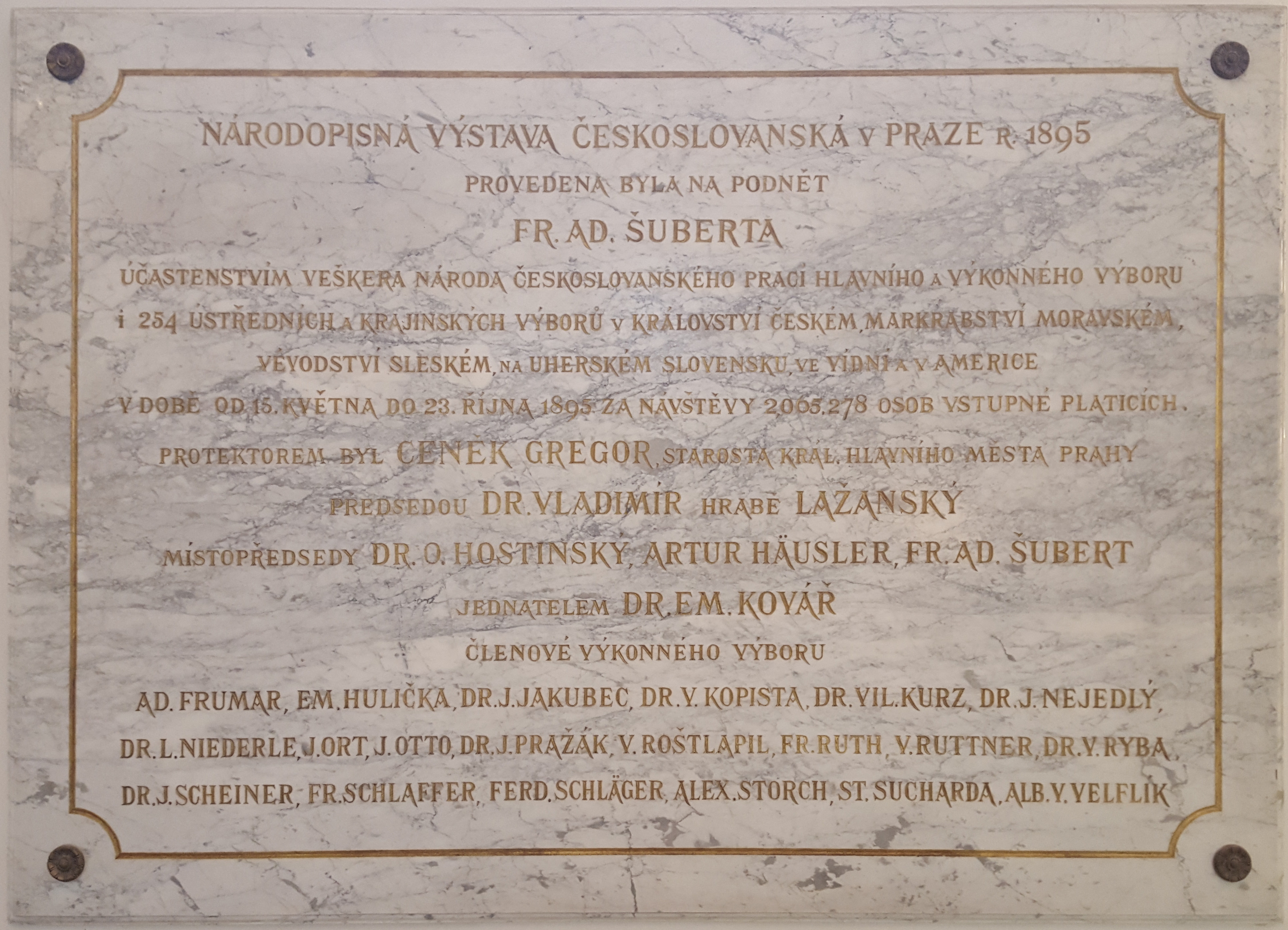 A memorial plaque located inside the Kinsky Summer Palace in Prague, commemorating the Czech and Slavonic Ethnographical Exhibition in Prague 1895. The building hosts an ethnographical collection of the National Museum, big part of which was assembled during this Exhibition.